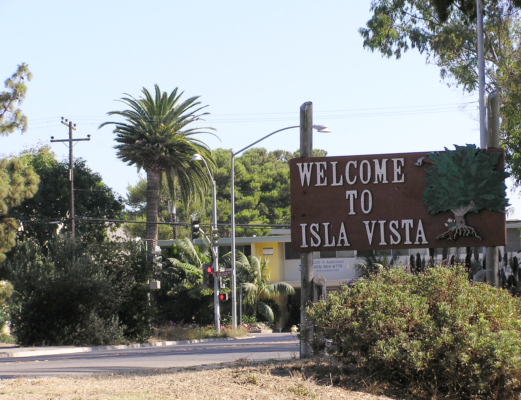 Photographed by Alan Mak on September 3rd, 2005. The tree on the sign is the `Isla Vista Tree,' which stood at the edge of Sea Lookout Park at On el colegio rd. The tree fell off the edge of the bluff, and now there is only a plaque to commerorate it. The log of this tree recurs in a number of the community building efforts for Isla Vista.